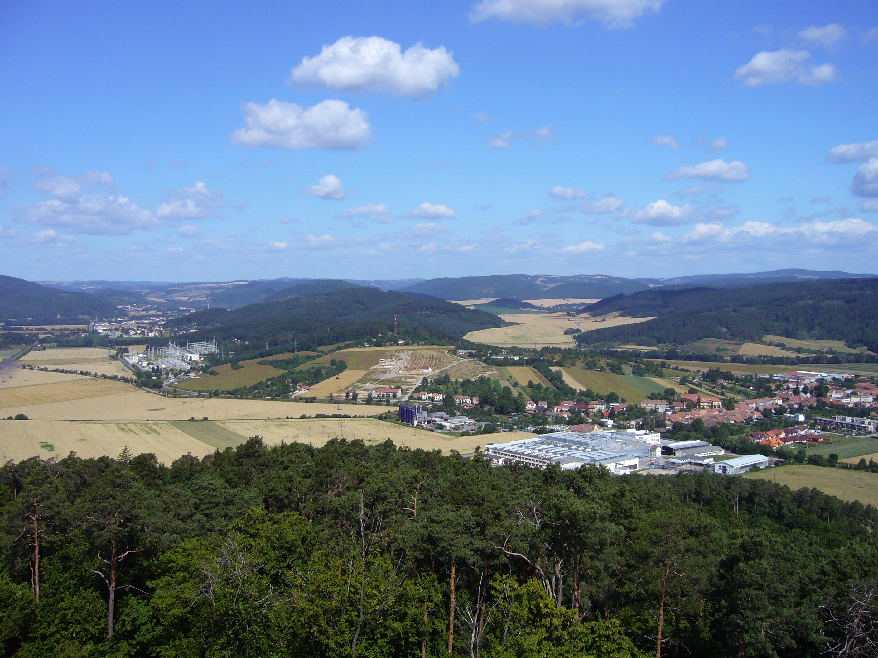 Outlook towards Tišnov from the view-tover at Čebínka hill